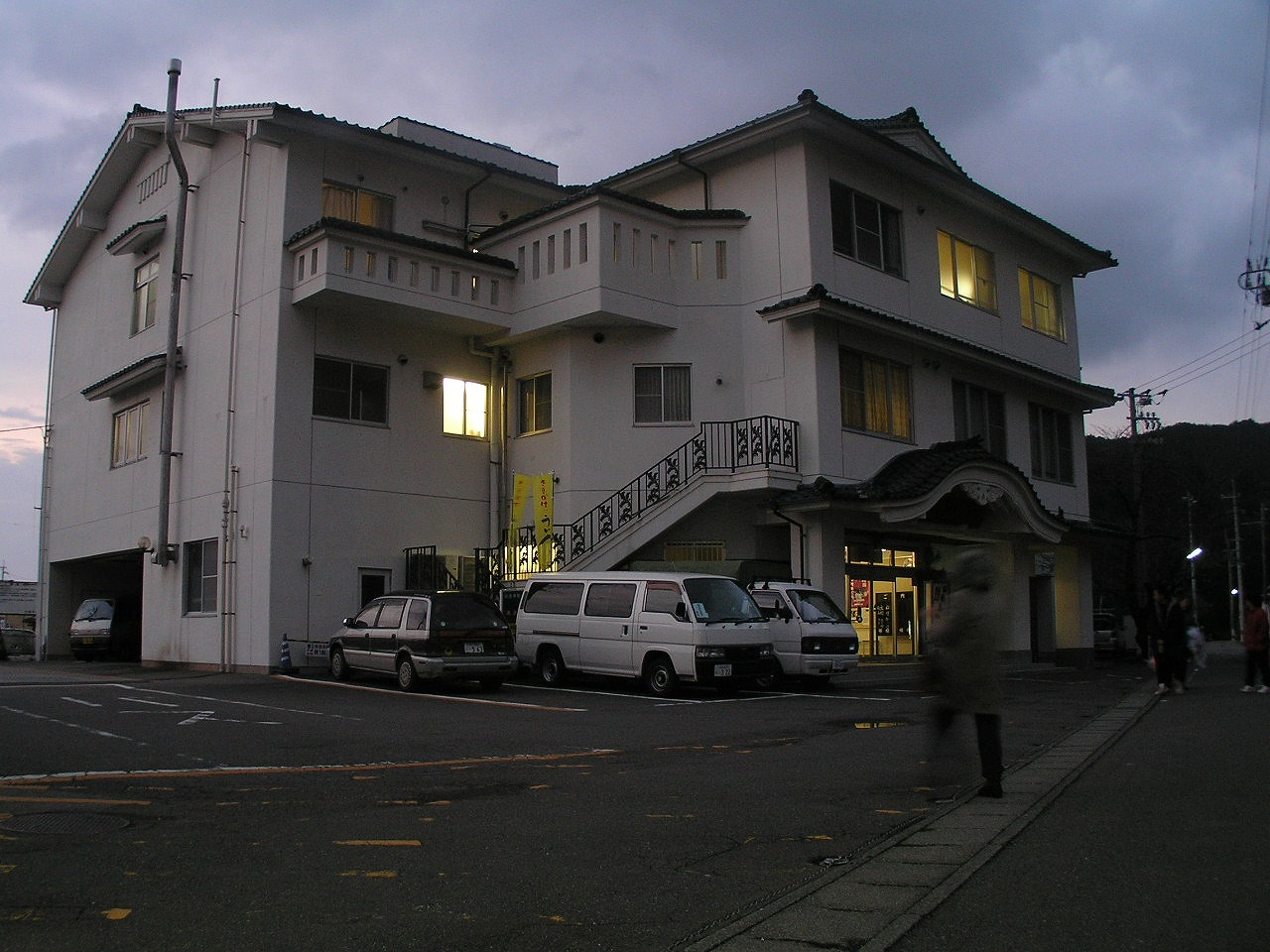 yakuouji-syukubou薬王寺宿坊